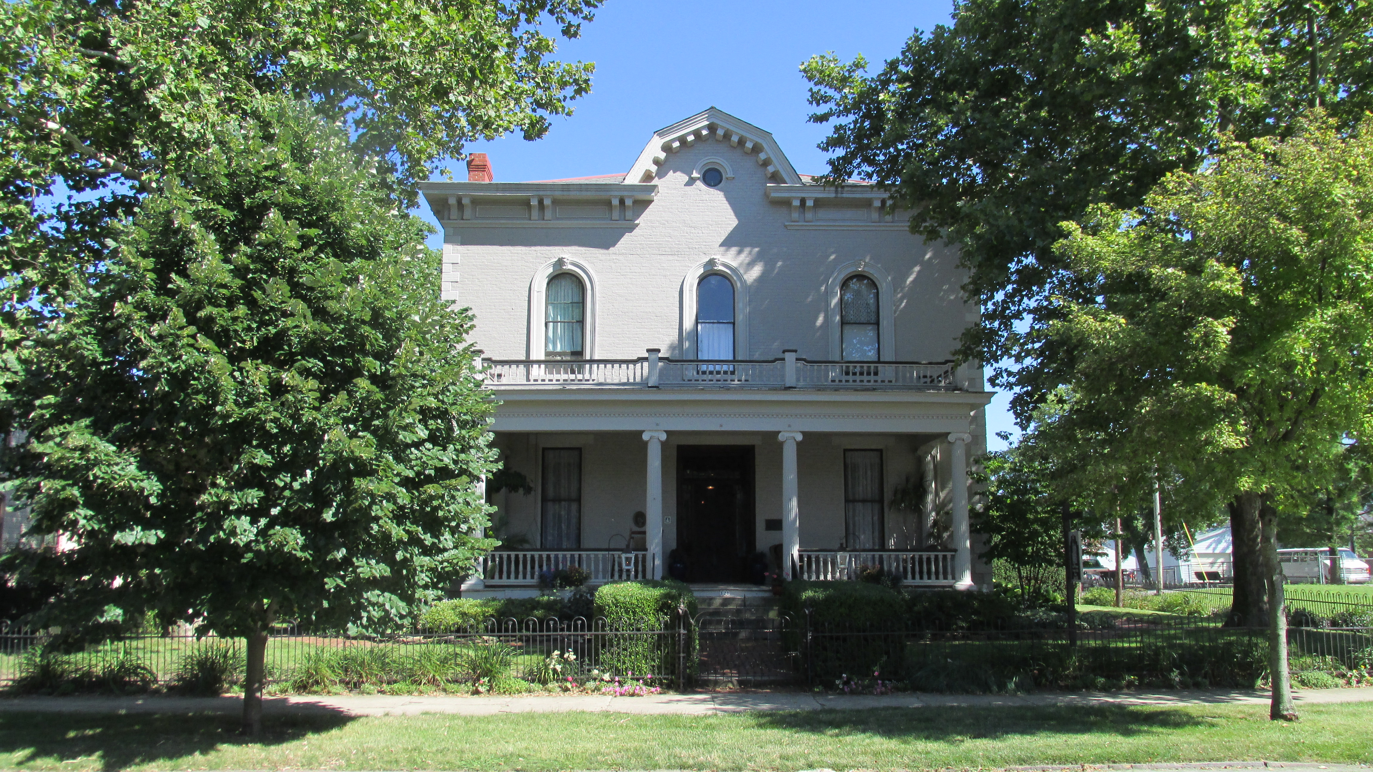 Barney Kelley House located in Washington Court House, Ohio.